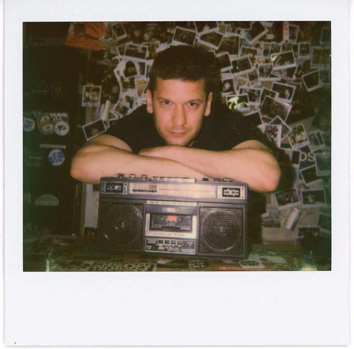 Tim Sweeney in 2017